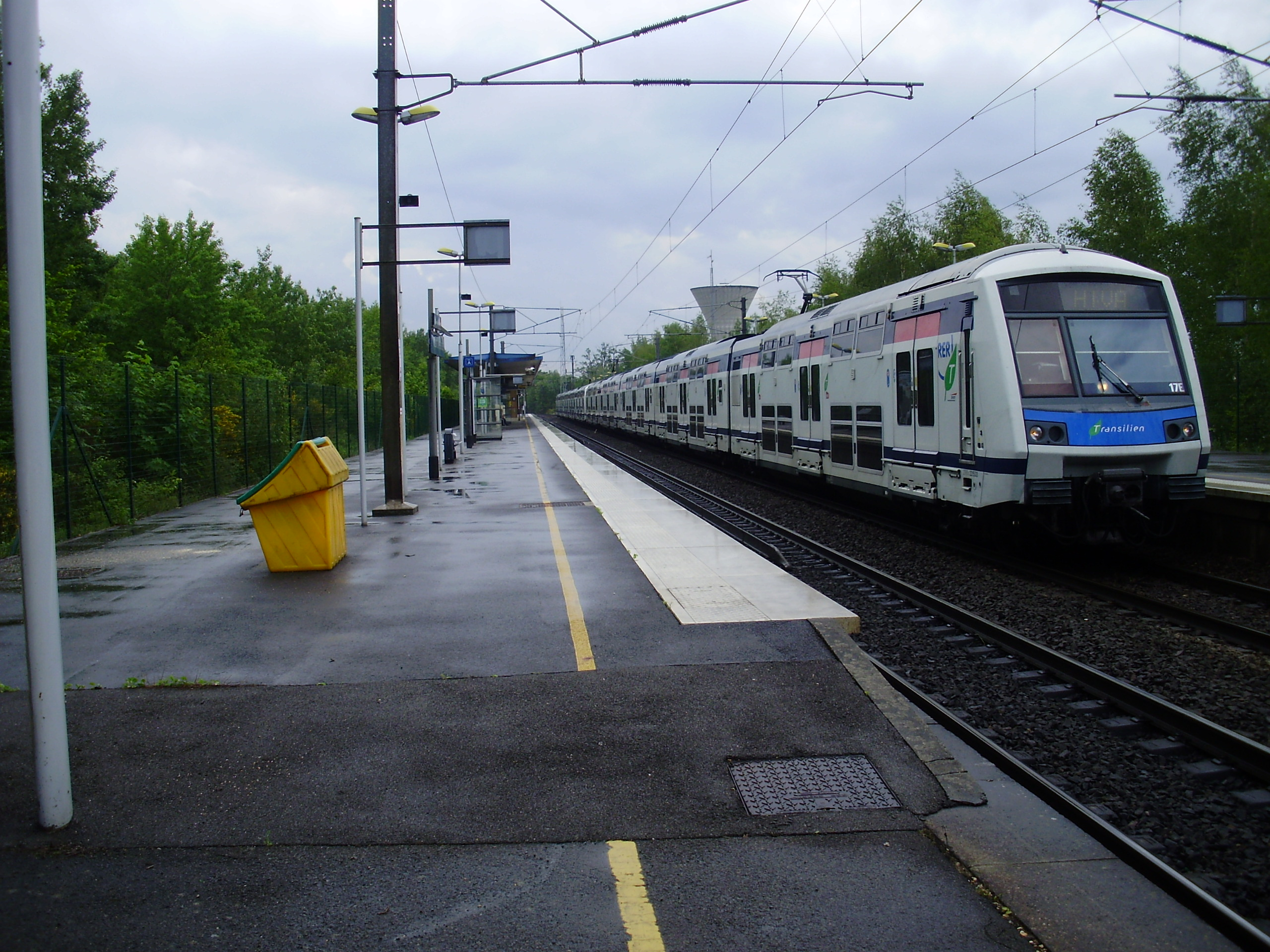 Ozoir-la-Ferrière station, Seine-et-Marne, France (SNCF Class Z 22500 going to Paris)